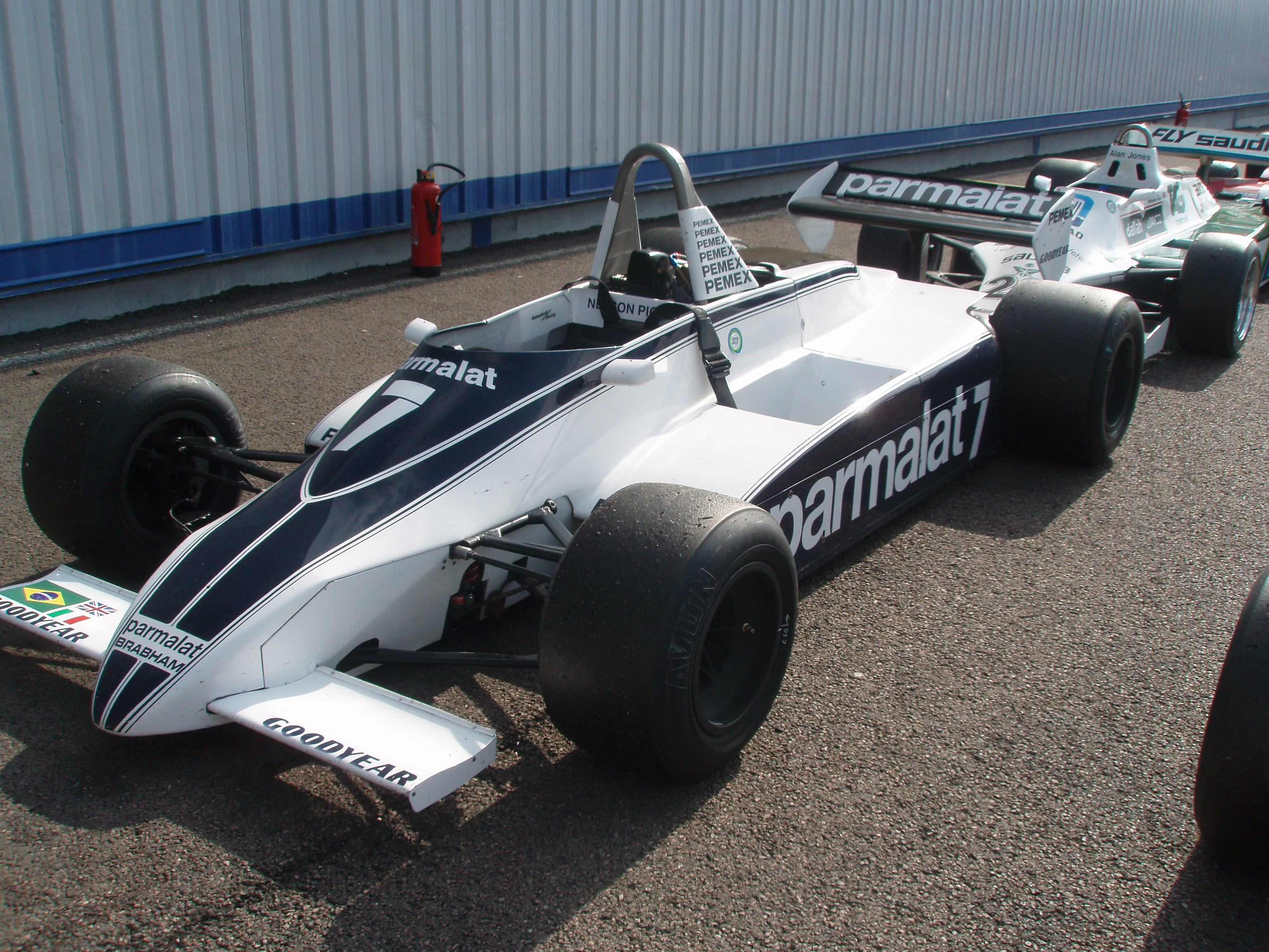 Brabham BT 49 (formerly Nelson Piquet's) on the pitlane of Dijon-Prenois during the 2007 Historical Grand Prix.